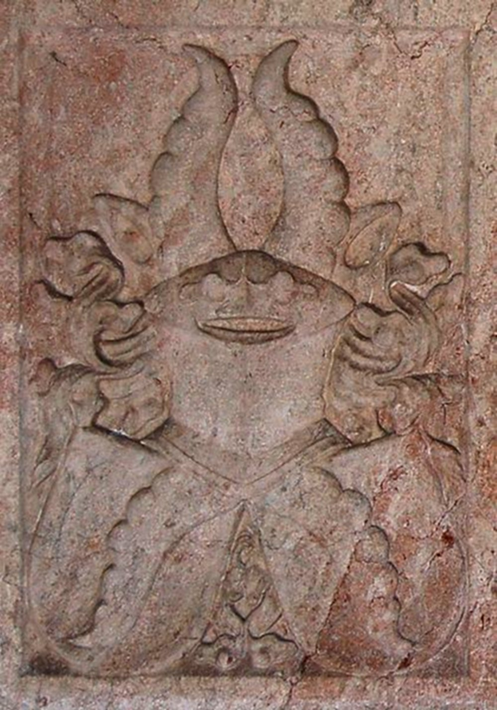 Relief with the coats of arms of Gebhard II. and Ulrich II. of Felben in St. Niclas in Weitau near St. Johann in Tirol